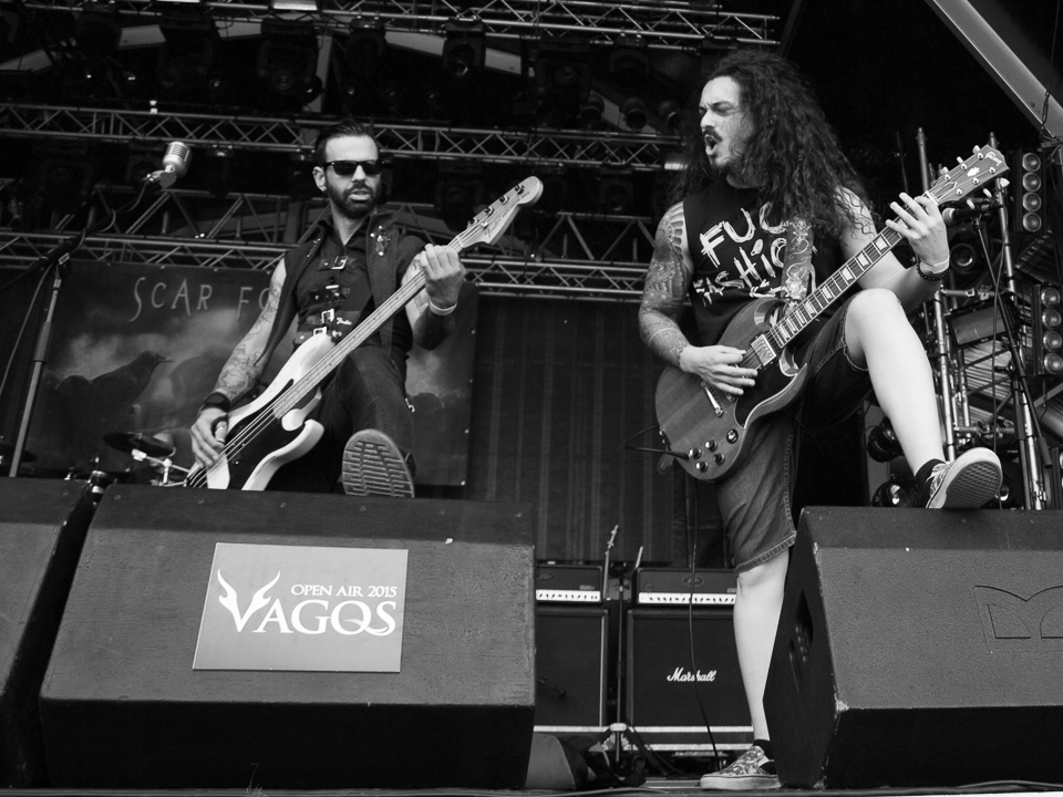 Tiago Ian and Teen Asty Scar For Life at Vagos Open Air 2015